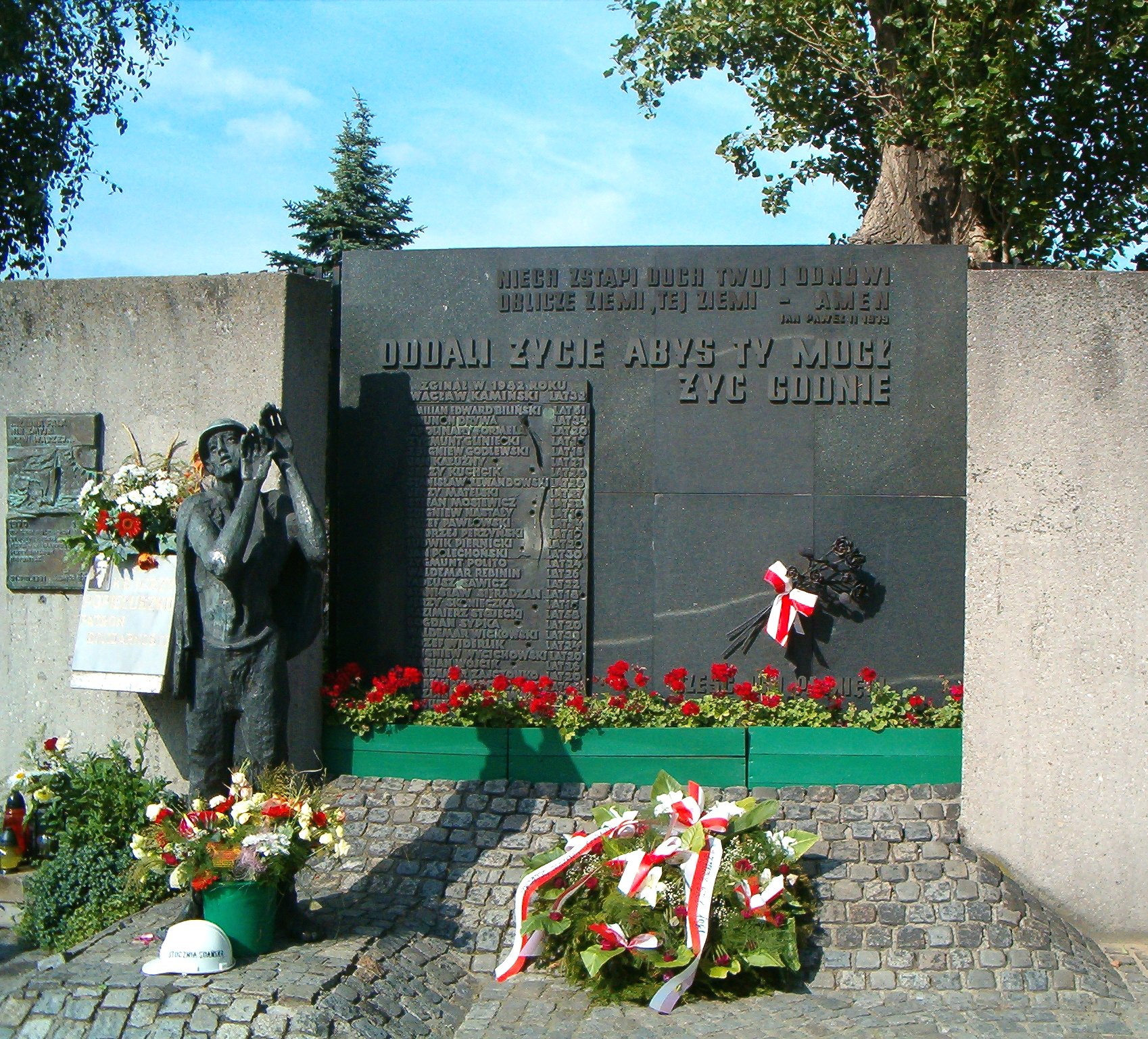 List Fallen in 1970 Shipyards Workers. Gdansk, Poland.